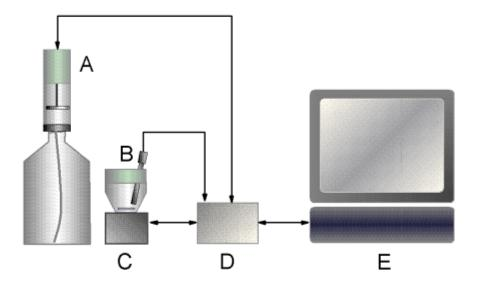 I am the originator of this image I am the originator of this image